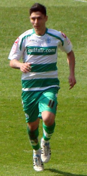 Alejandro Faurlín 2, cropped from 23/04/11 Cardiff V QPR, Championship, Cardiff City Stadium, Cardiff, Wales